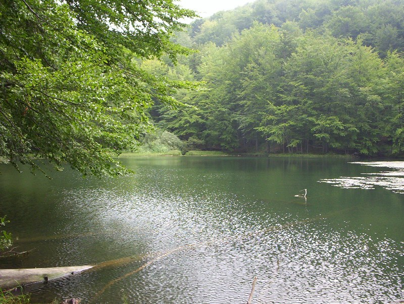 Duszatyn Lakes in nature reserve Zwiezło, under mountain Chryszczata (Bieszczady, Poland). The upper lake.